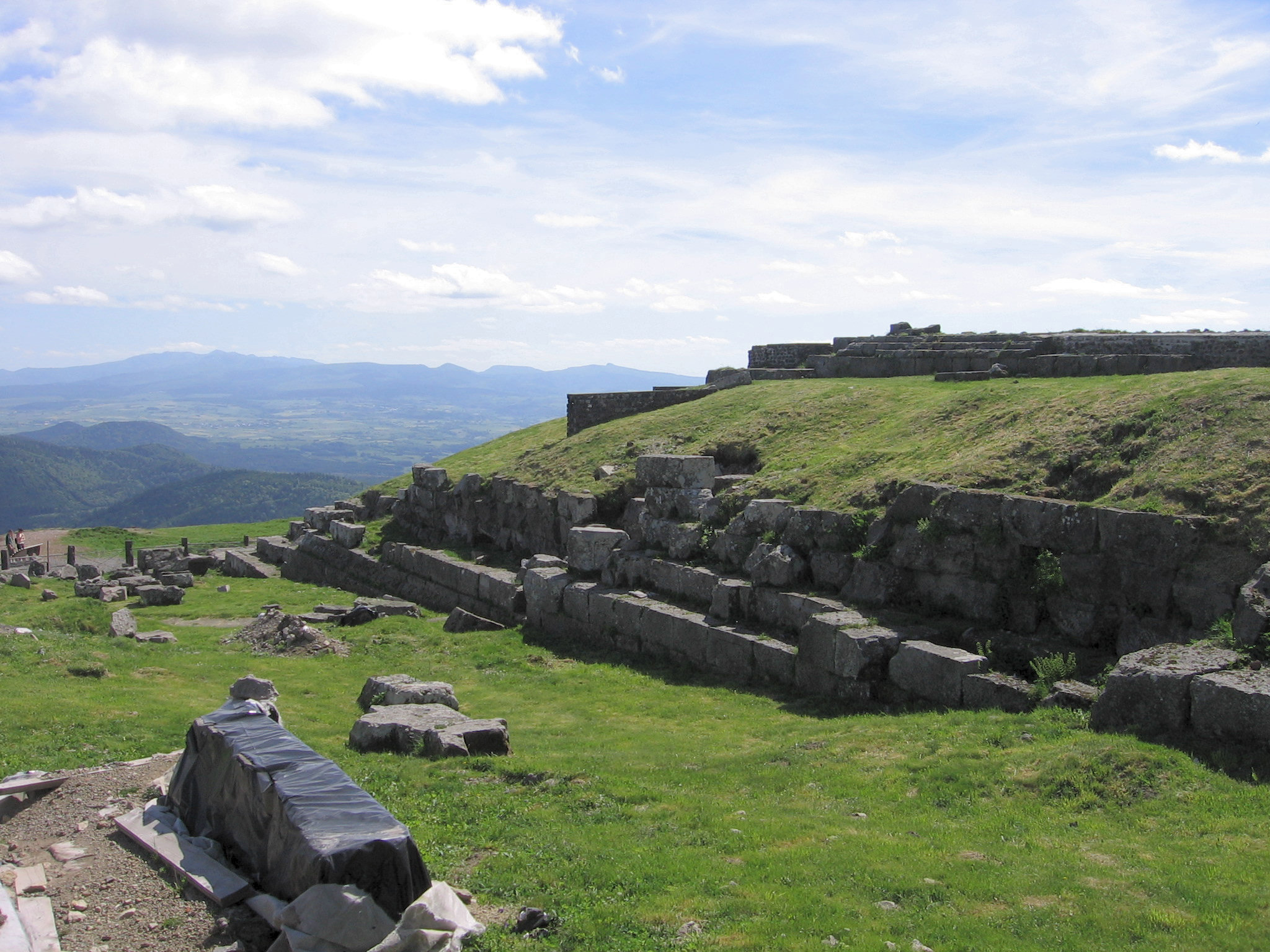 Sight of the Temple de Mercure roman temple ruins, situated at the top of the Puy-de-Dôme mount, in the Massif Central mountains, in Auvergne, France.